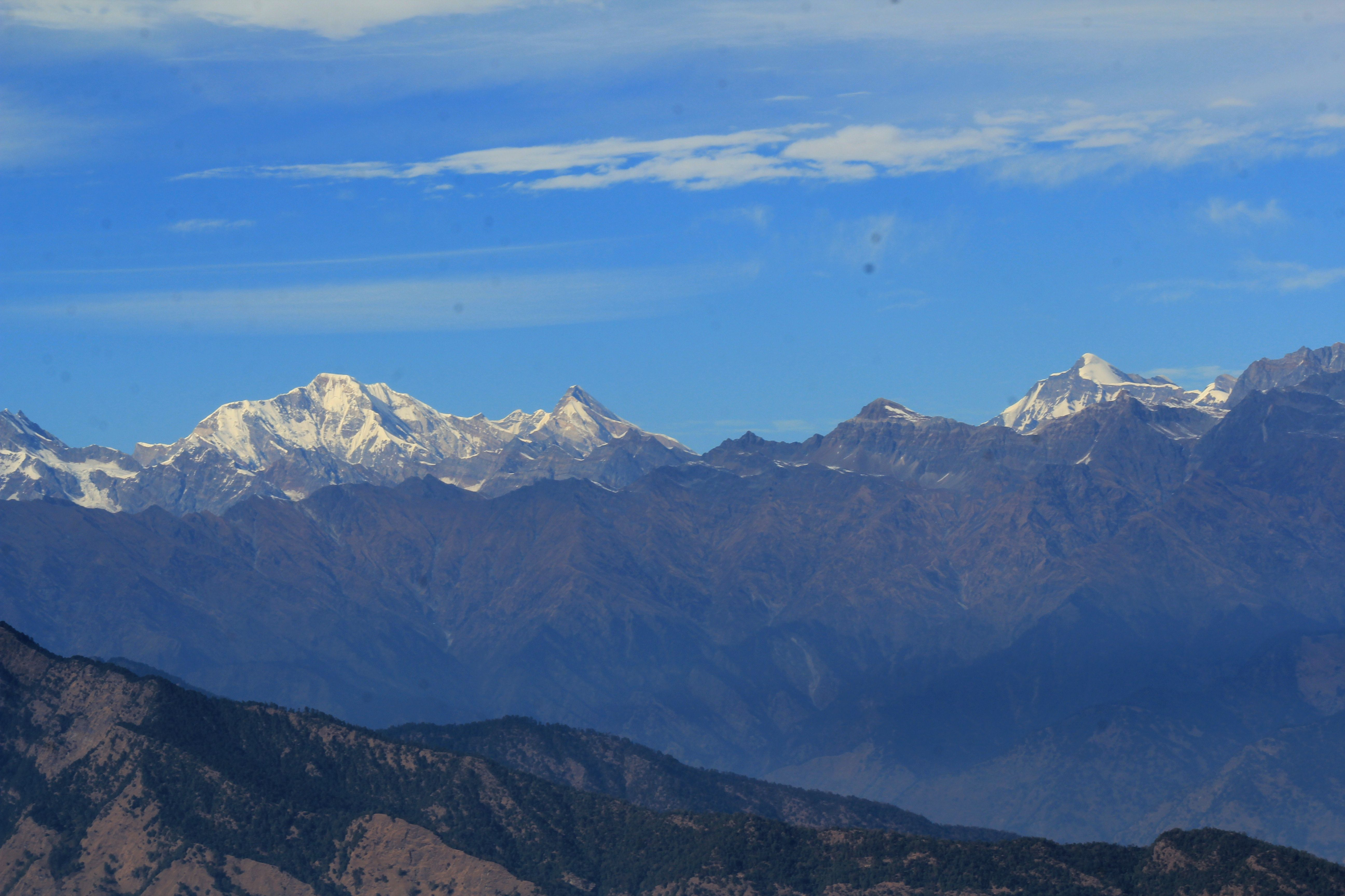 View of Himalayan peaks from Kartik Swami Temple